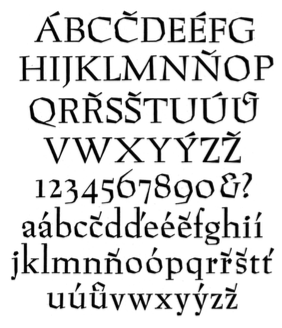 Preissig Antiqua typeface by V. Preissig